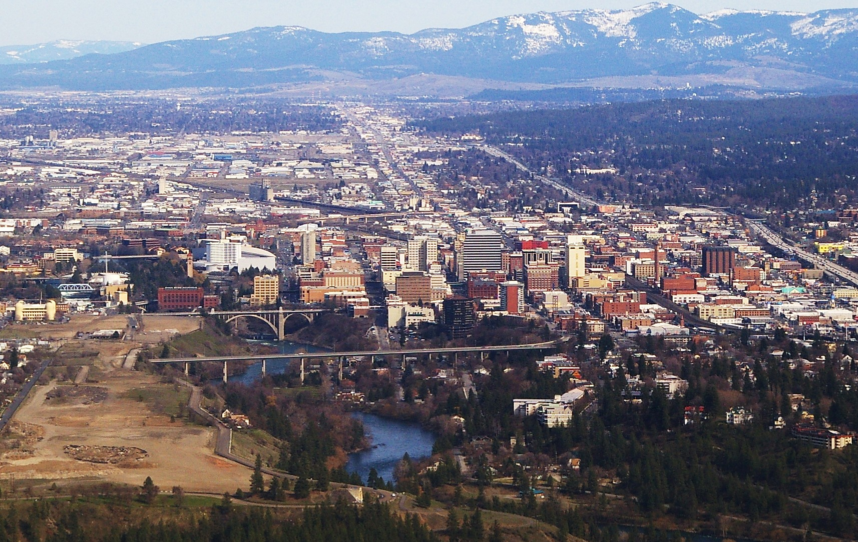 Downtown Spokane, WA on approach to the airport.